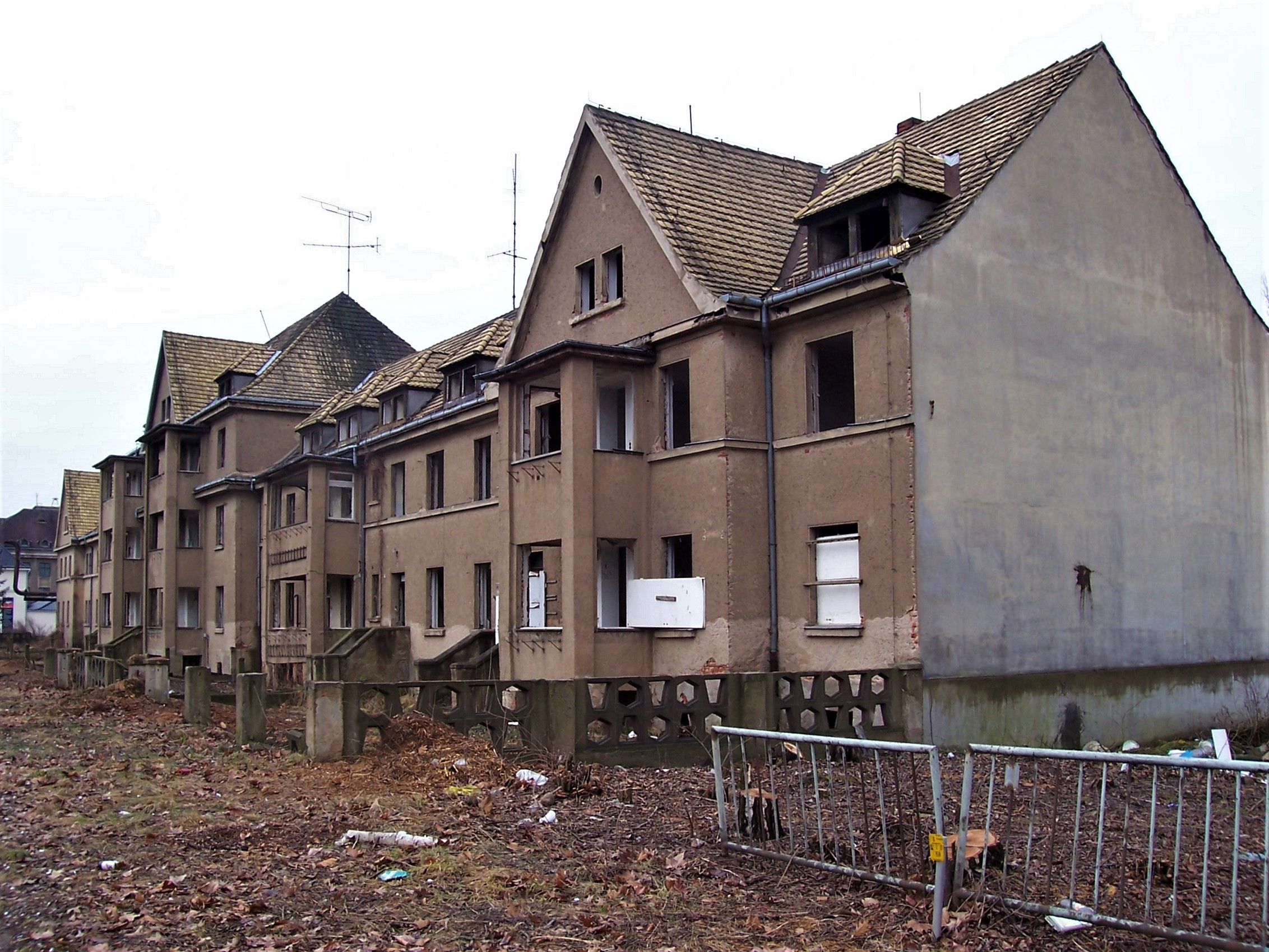 house prepared for demolition in Eilenburg, Ziegelstraße (2009)